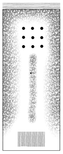 Graphic for the Munadun erremontea game